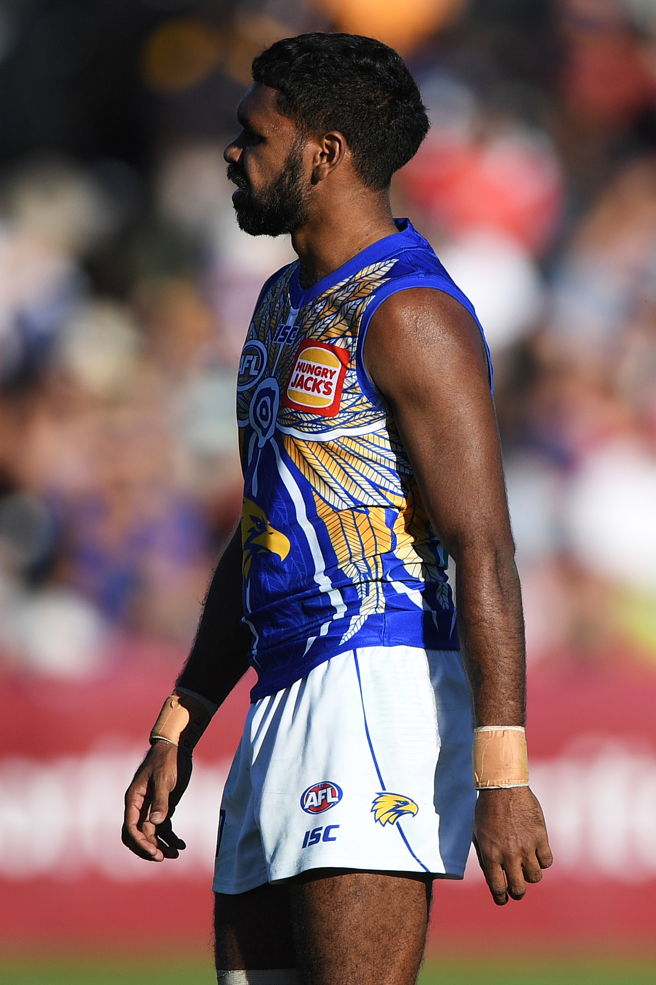 Liam Ryan of West Coast during the 2019 AFL round 18 match between Melbourne and West Coast at Traeger Park on Sunday, 21 July 2019 in Alice Springs, Northern Territory.